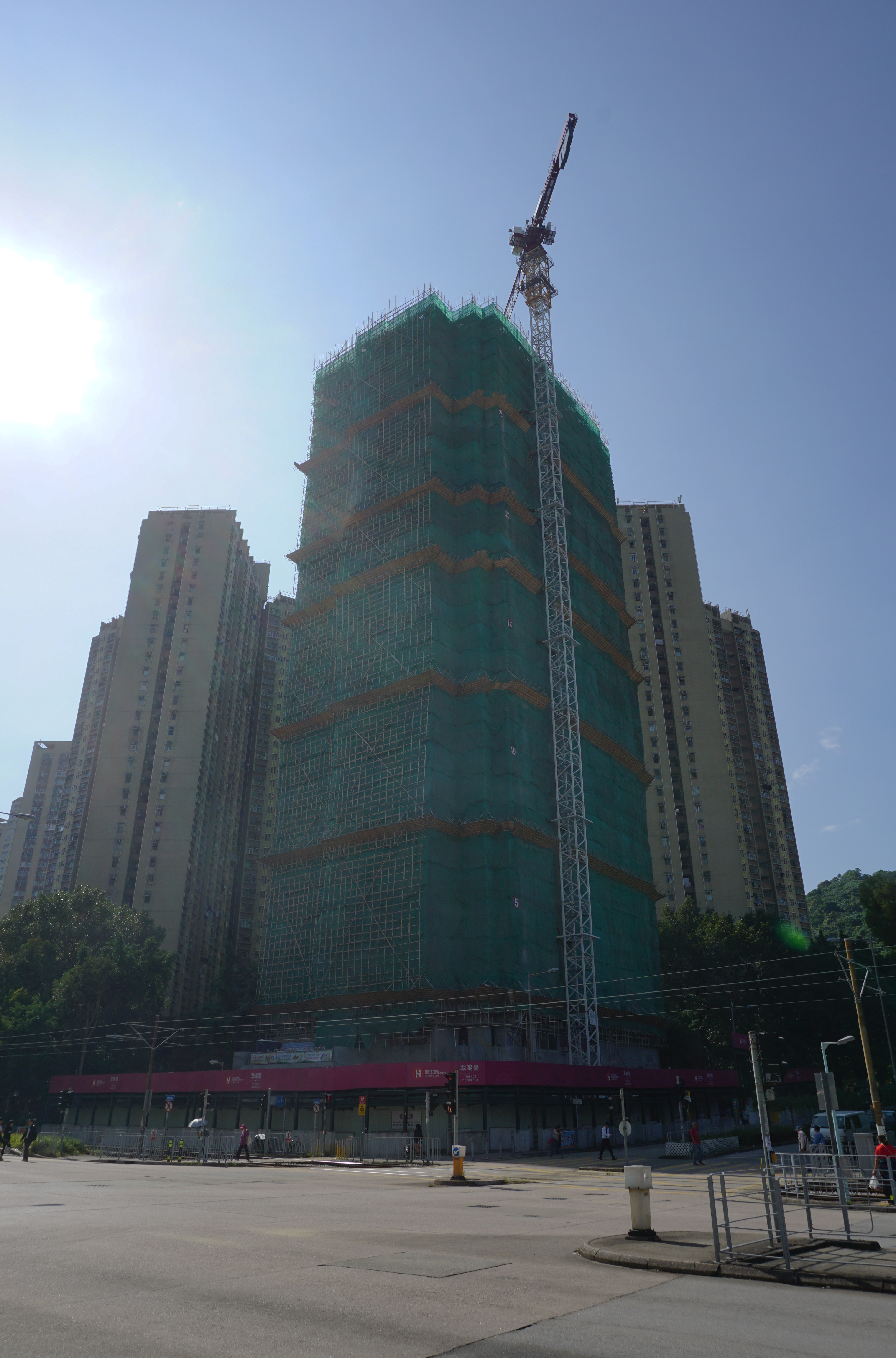 Terrace Concerto in Tuen Mun, Hong Kong.